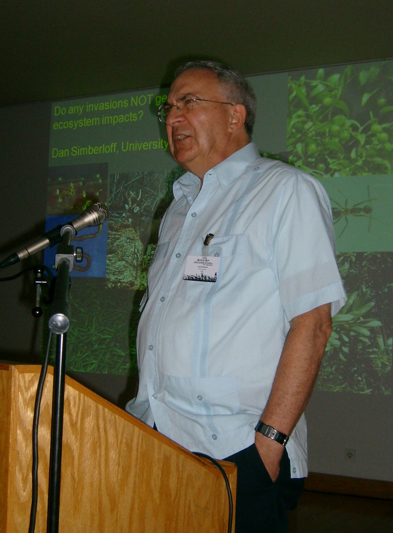 Daniel Simberloff, keynote speaker at Biolief conference in Porto, Portugal.